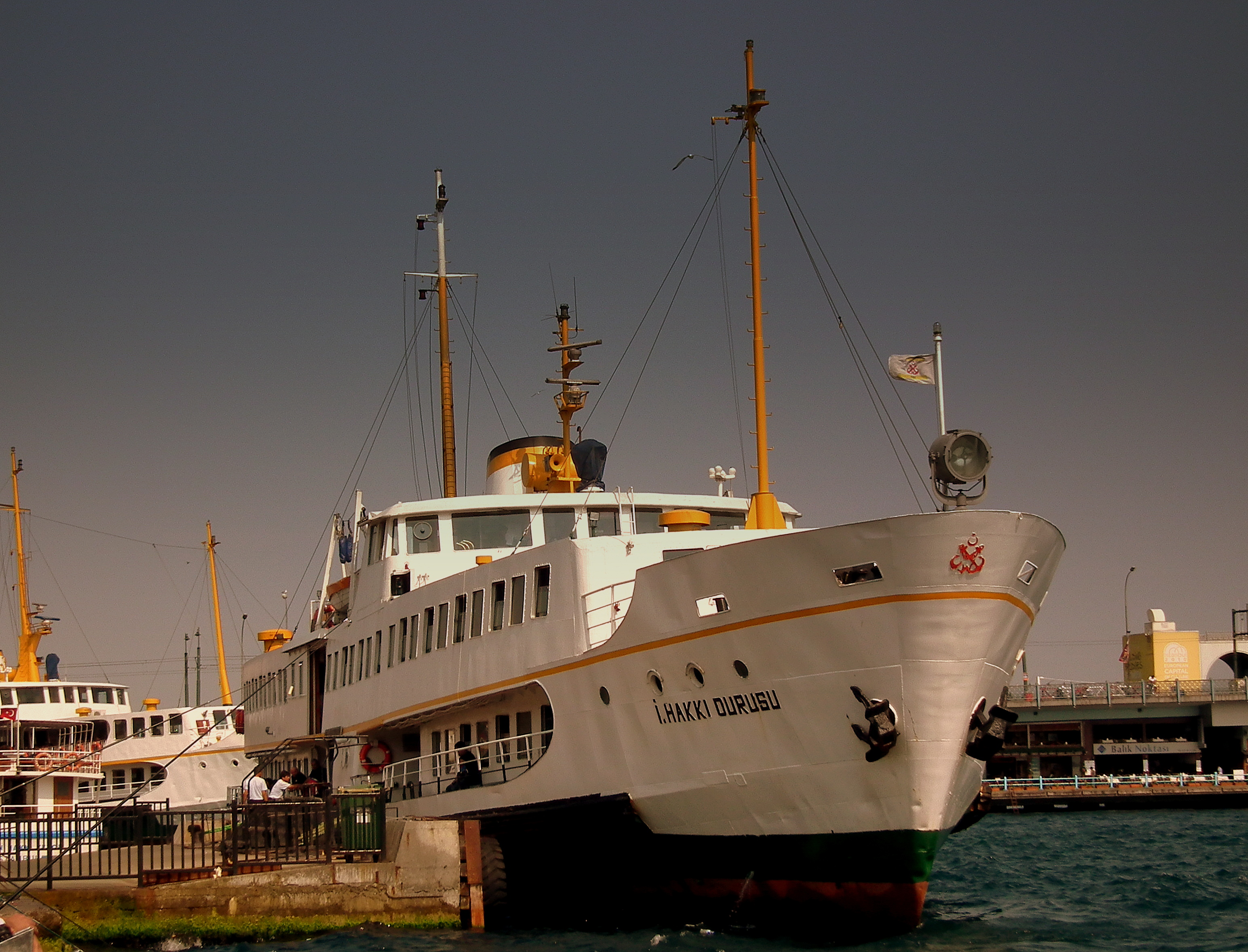 I HAKKI DURUSU ISTANBUL FERRY ISTANBUL TURKEY JULY 2011